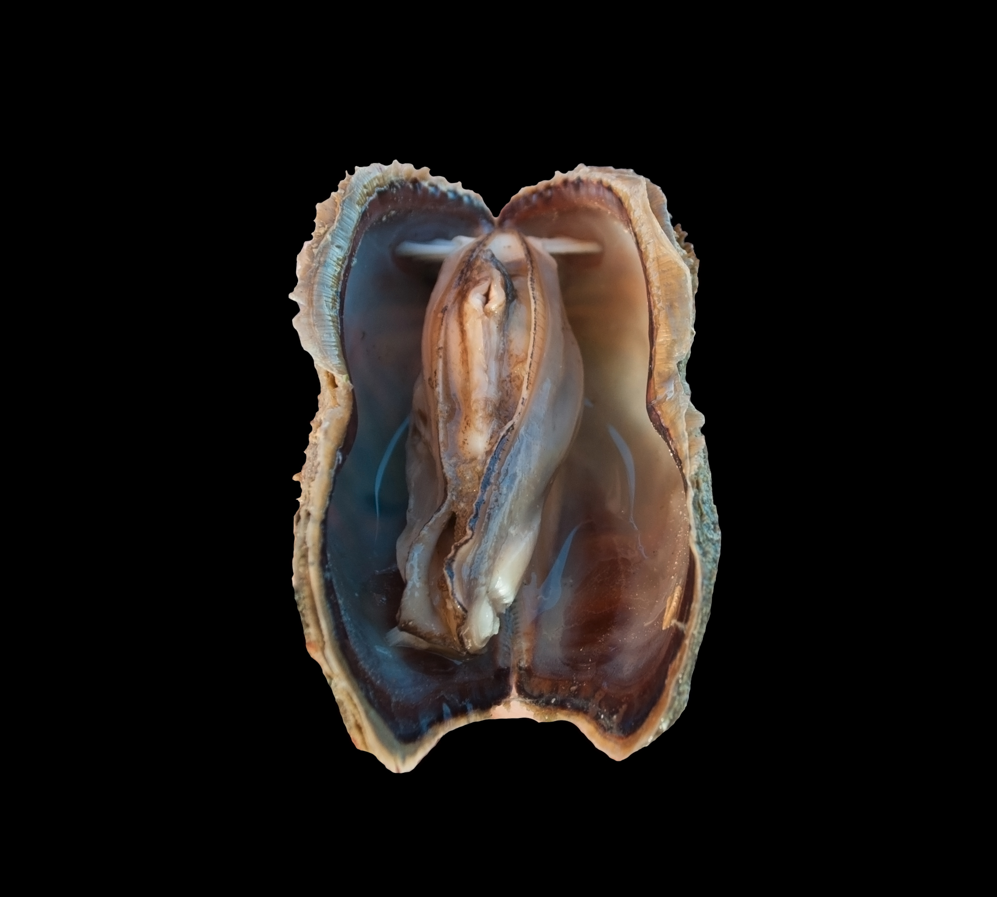 Arca zebra (Interior) from El Guamache Bay, Margarita island. Locally called Pata e cabra